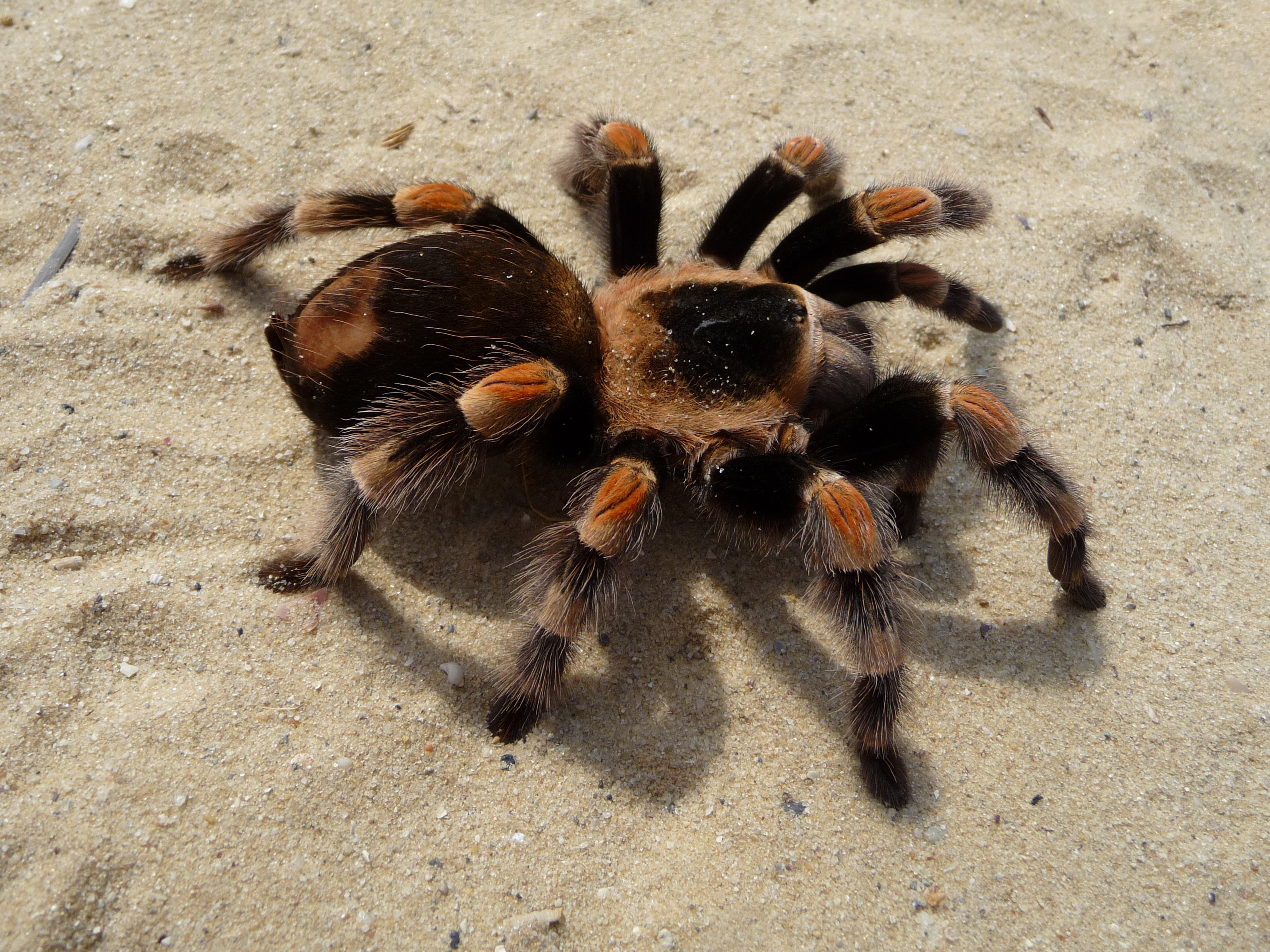 Mexican Red-kneed Tarantula, Mexican Red-kneed birdeater. Female (Brachypelma smithi)